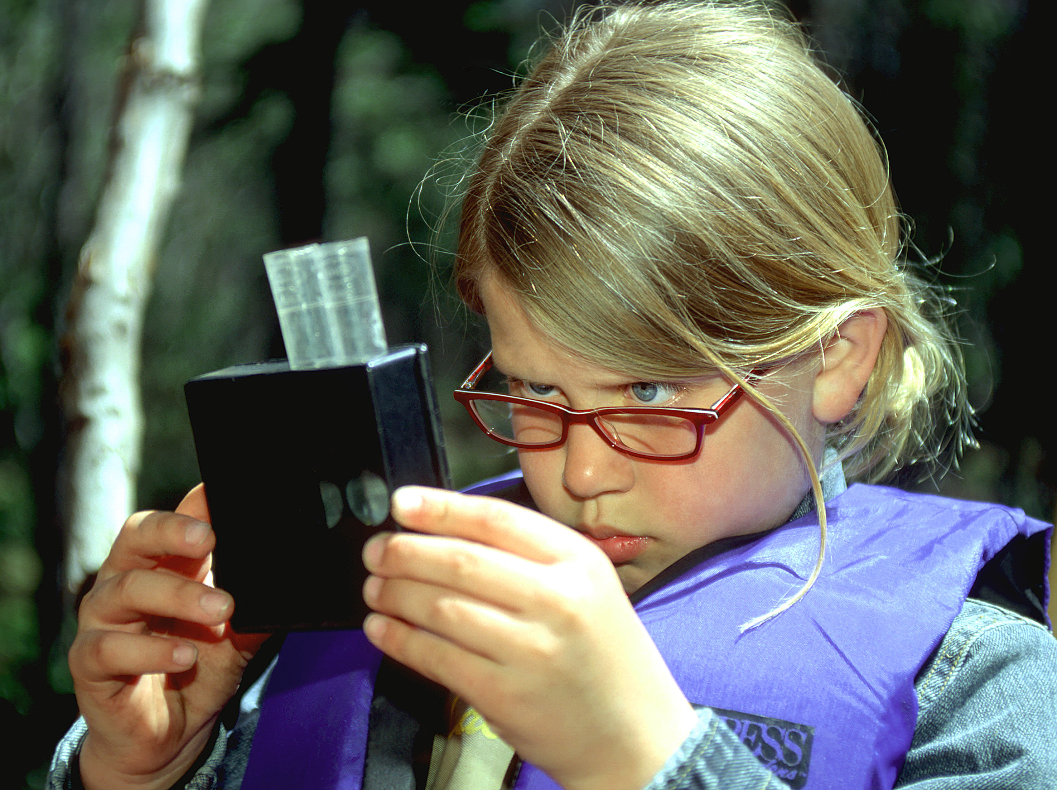 Girl examining specimen during Wolftree Outing on the Deschutes National Forest